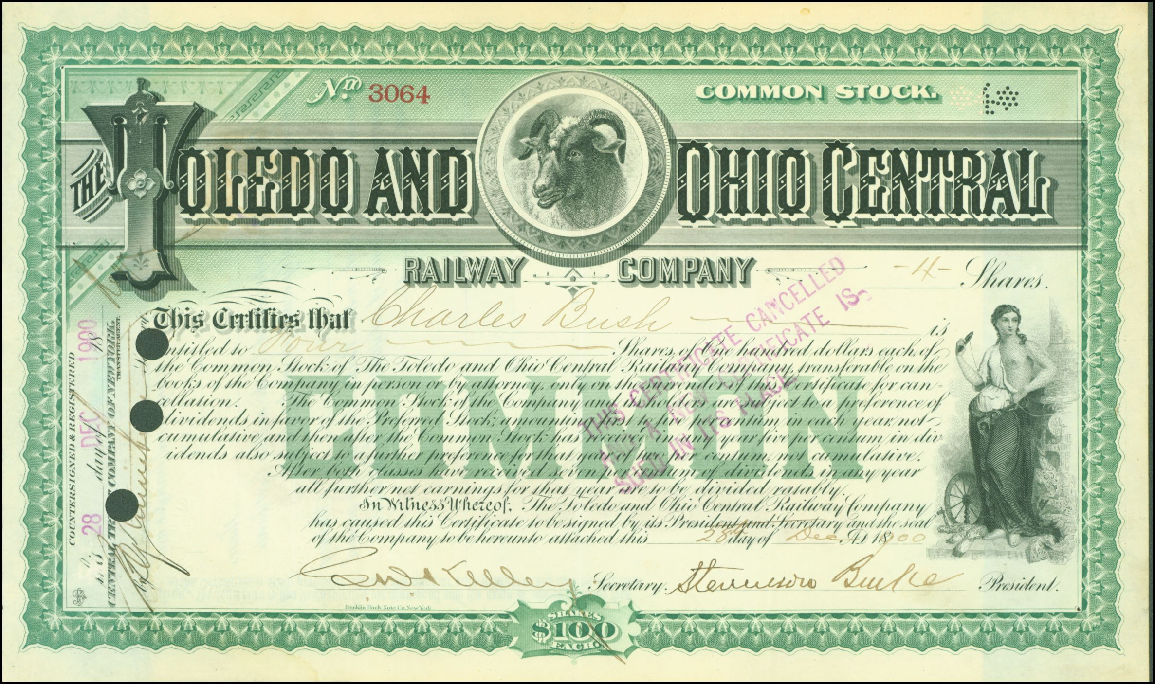 Share of the Toledo and Ohio Central Railway Company, issued 28. December 1900